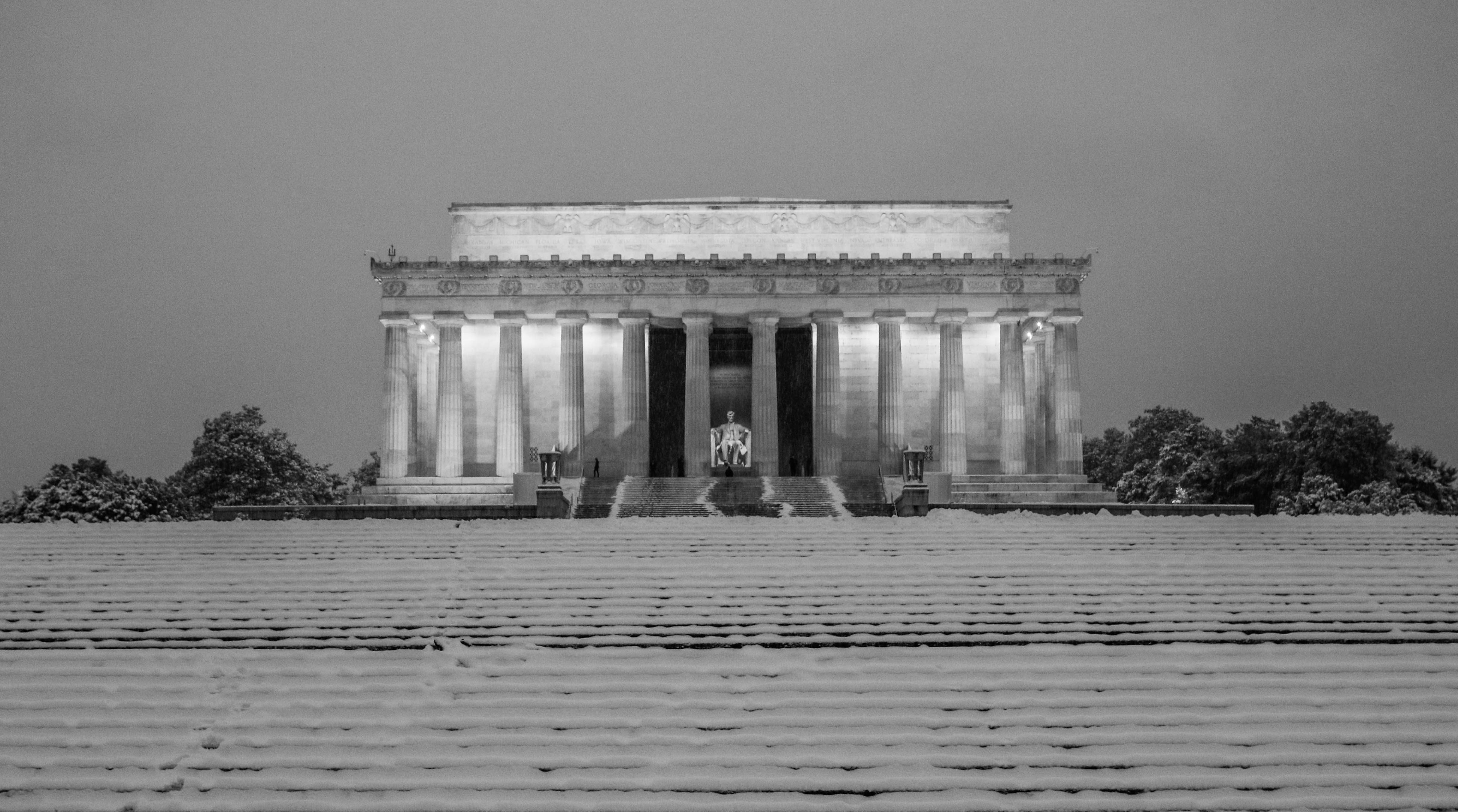 Black and white image of the Lincoln Memorial covered in snow before dawn Lincoln Memorial at National Mall & Memorial Parks Keywords: Lincoln Memorial; LINC; National Mall & Memorial Parks; NAMA; District of Columbia; DC; snow; winter